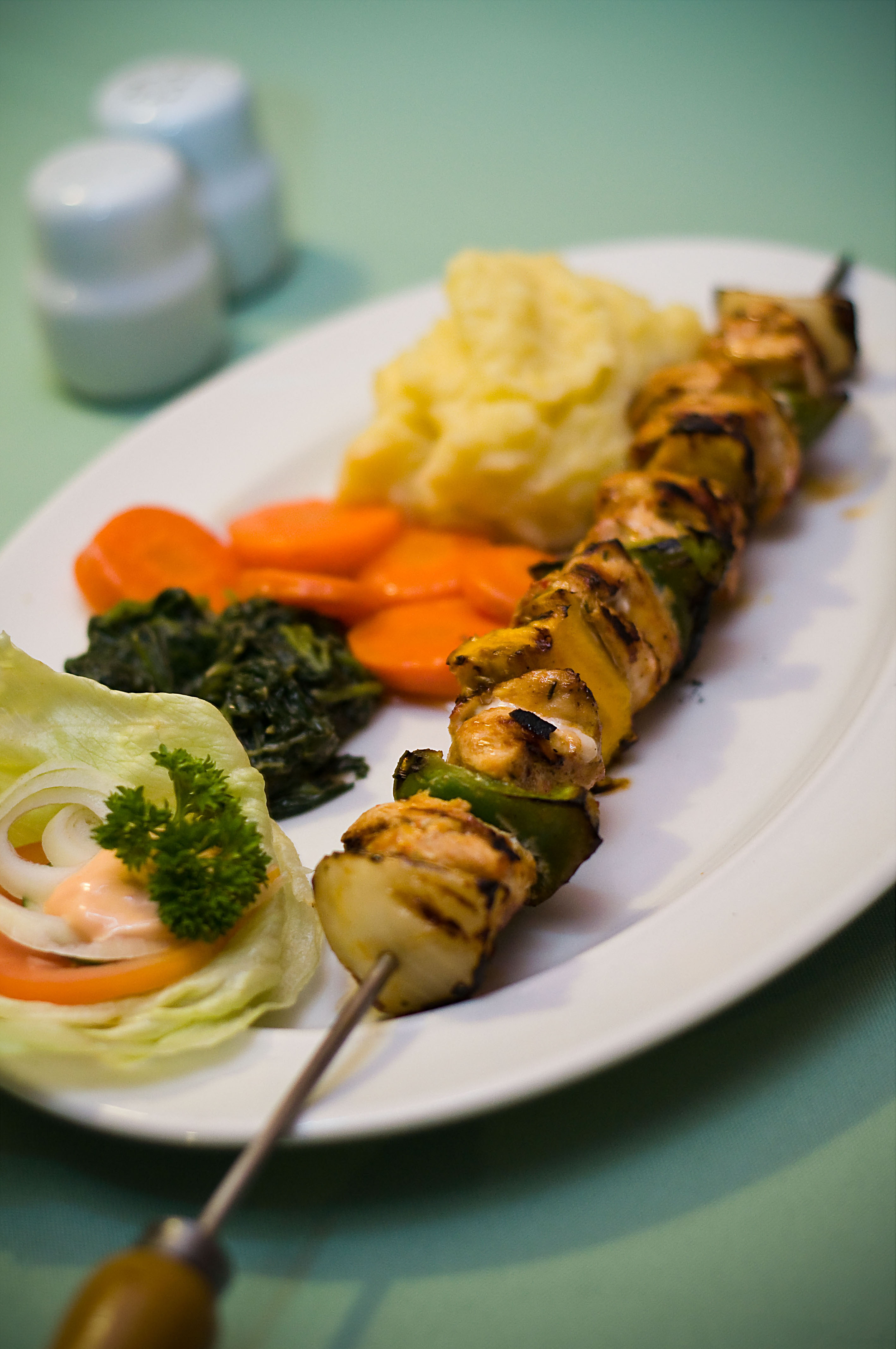 Singita's Chicken Sosatie